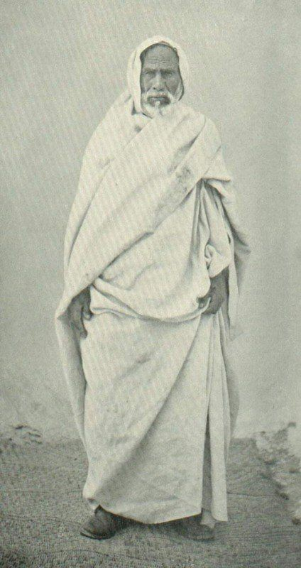 A photo of sayyed Omar Moukhtar.